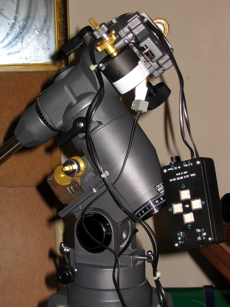 German equatorial mount Bresser MON-2 (EQ-5) with Dual Axis Motor Drive